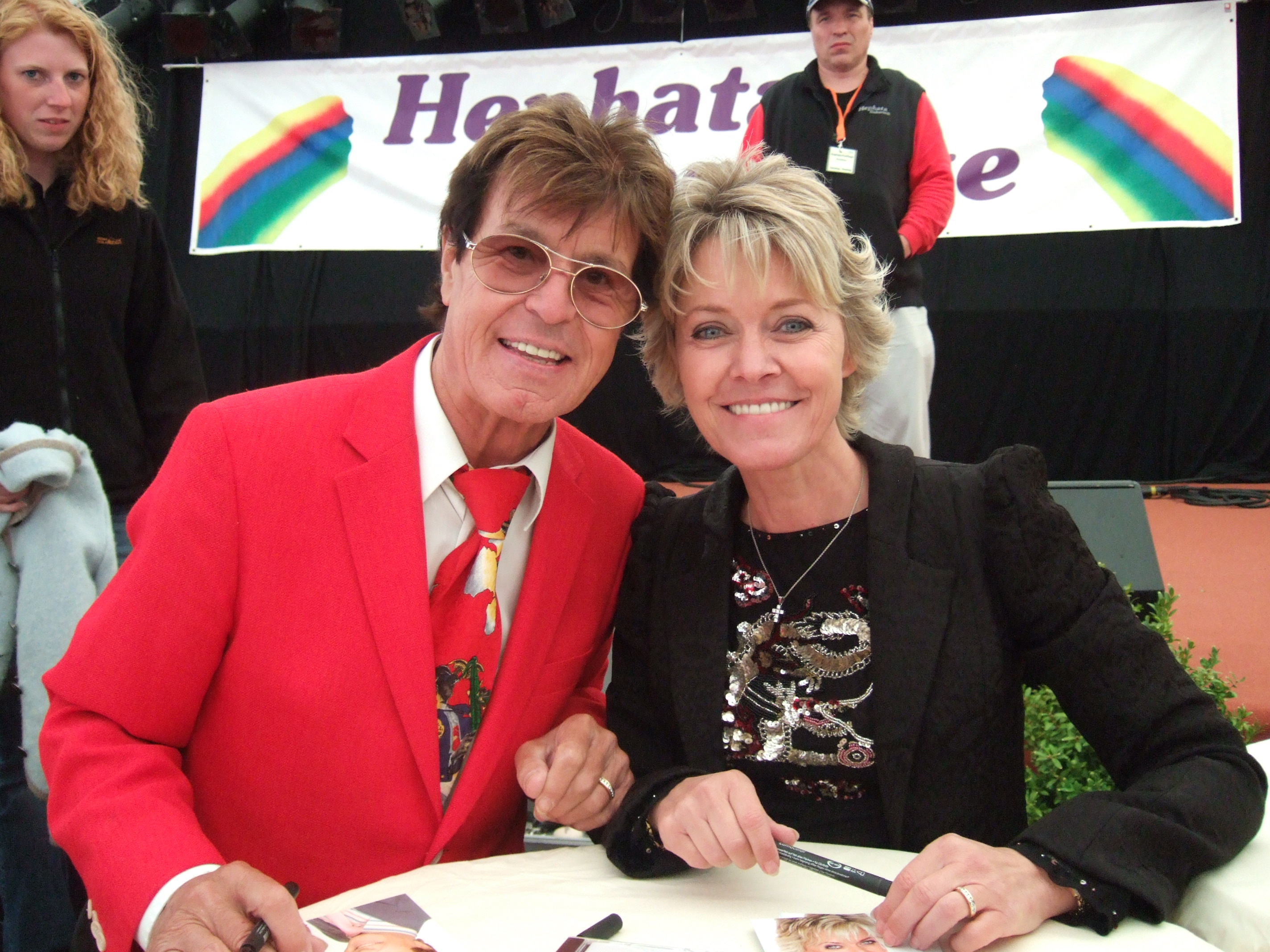 Freddy Breck performing one of his last concerts in Schwalmstadt-Hephata with his wife and showpartner Astrid Breck, Germany